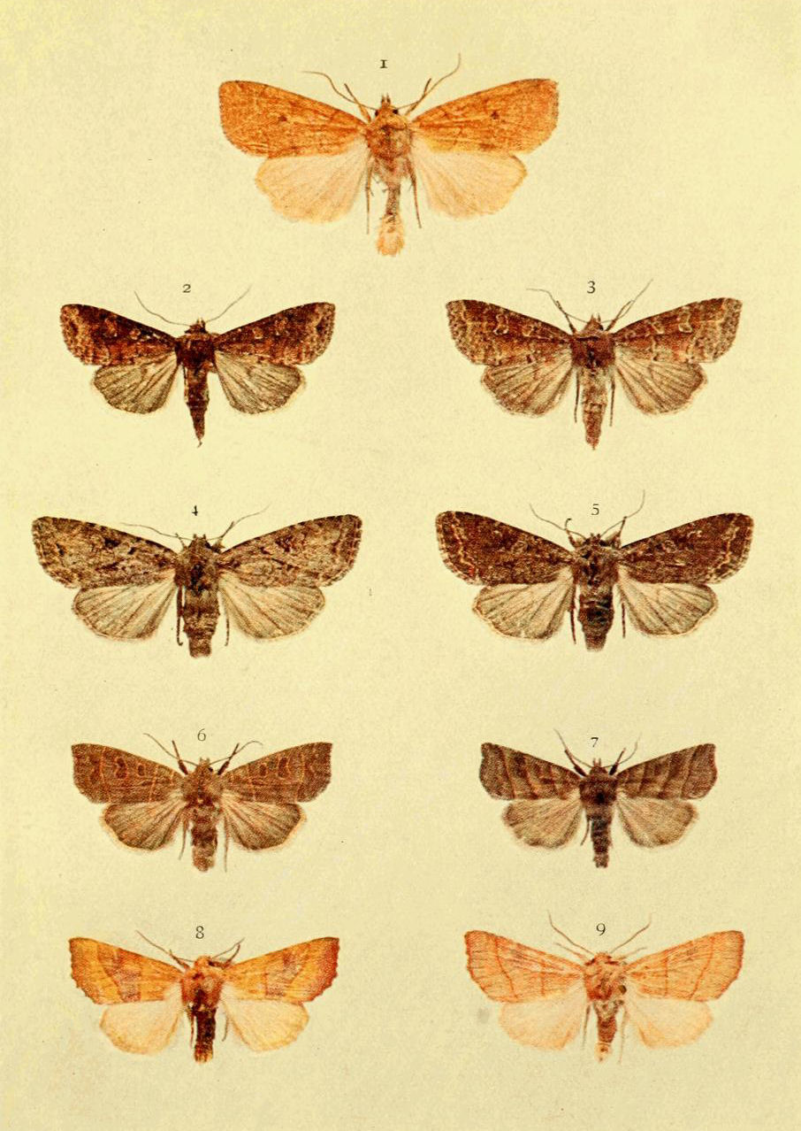 Plate 4. DescriptionBinomial in textModern accepted name1. Angle-striped Sallow.Cosmia paleaceaEnargia paleacea2, 3. The Suspected.Dyschorista suspectaParastichtis suspecta4, 5. Dingy Shears. Dyschorista fissipunctaParastichtis ypsillon6. The Olive.Plastenis subtusaIpimorpha subtusa7. Double Kidney.Plastenis retusaIpimorpha retusa8. Centre-barred Sallow. Cirrhœdia xerampelinaAtethmia centrago9. Centre-barred Sallow, var. unicolor.